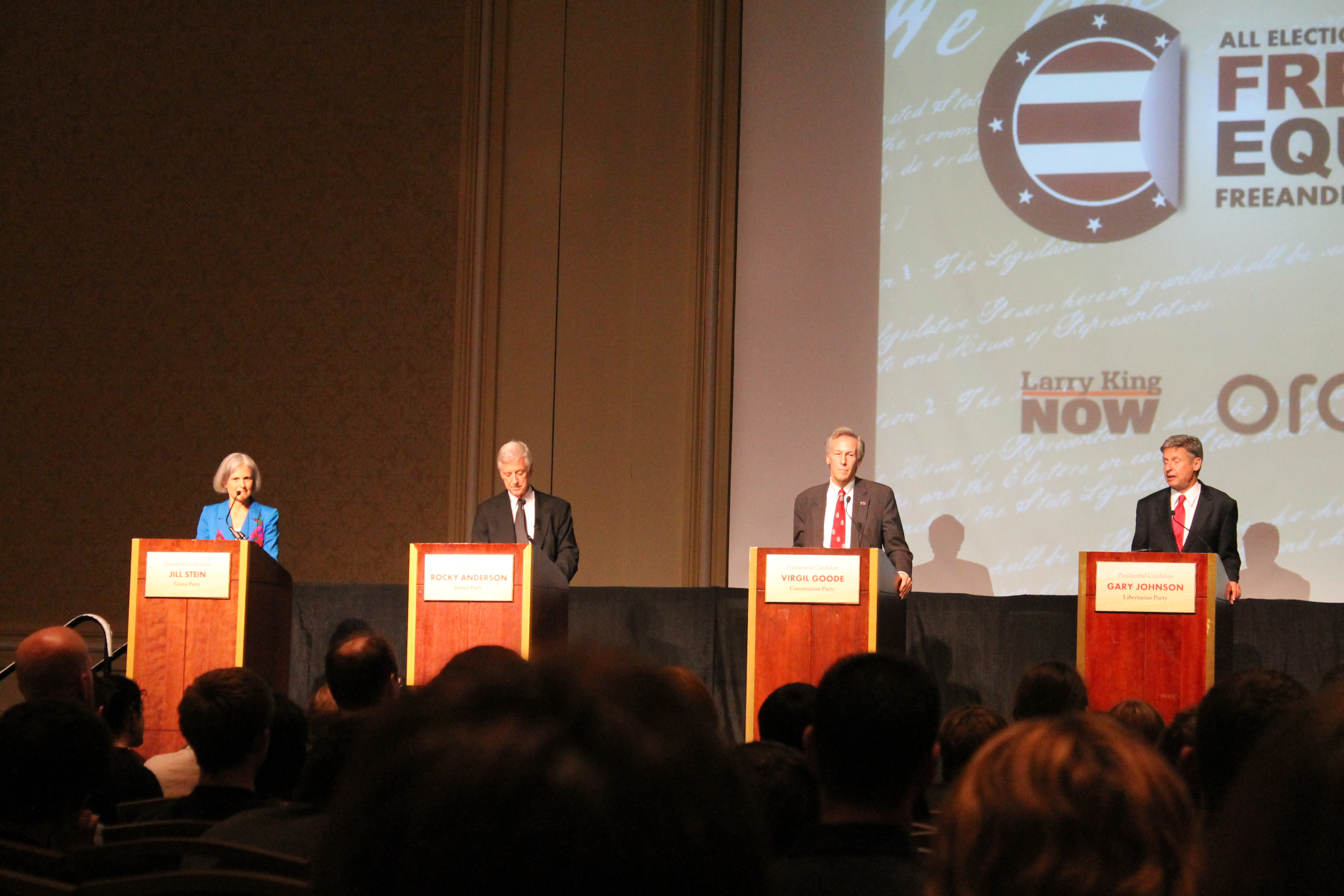 "Wasting your vote is voting for someone you don't believe in." - Gary Johnson Chicago saw an historical third party debate on Tuesday, October 23rd, 2012 at the Hilton Chicago, held by Free and Equal Elections . Larry King of CNN fame moderated an open debate, which all 6 candidates were invited to. Four attended: Jill Stein (Green Party), Rocky Anderson (Justice Party), Virgil Goode (Constitution Party), and Gary Johnson (Libertarian Party). Watch the whole video on CSPAN: For a fair and balanced news report about the debate, check out the following articles